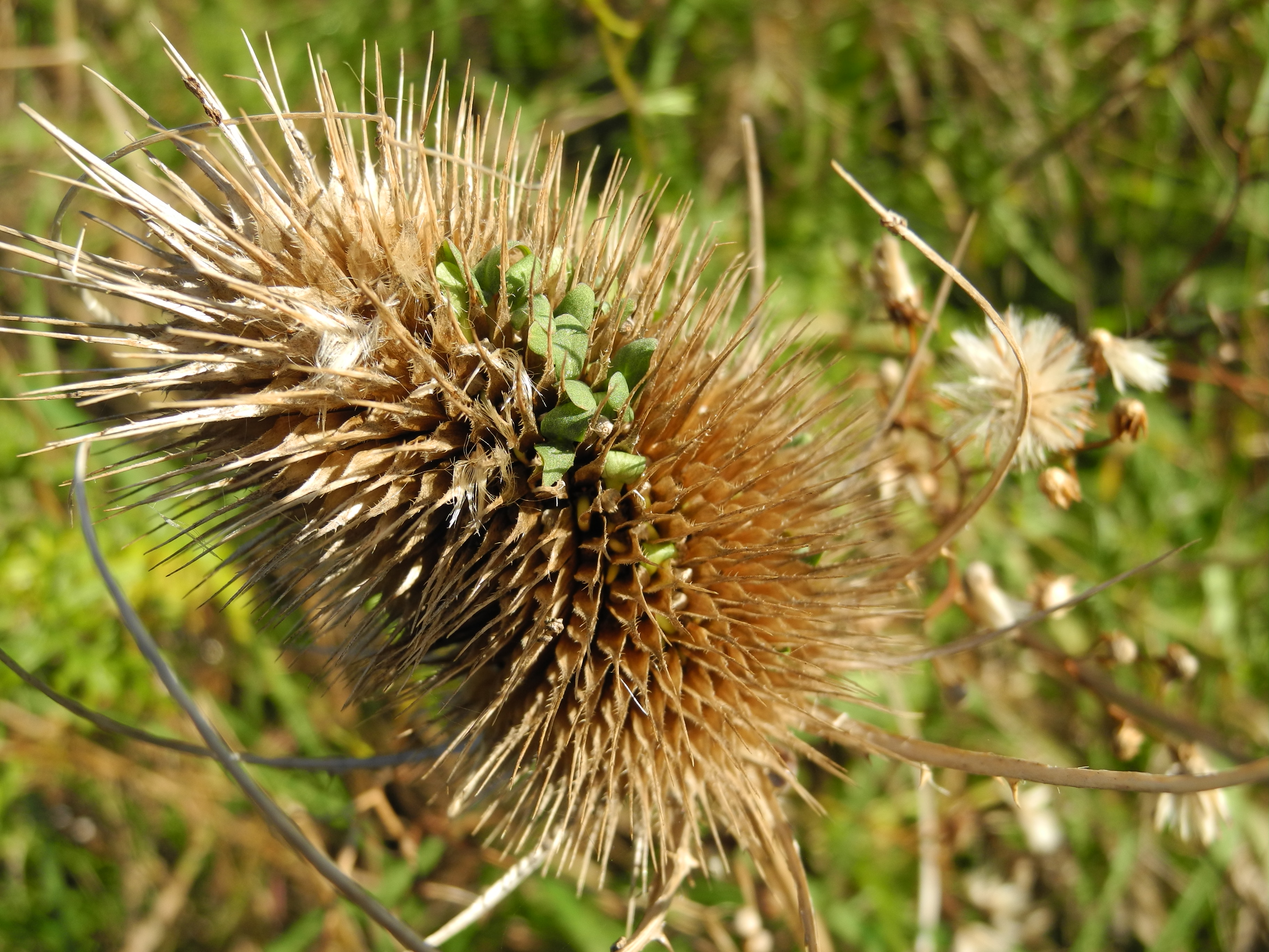 Seedhead of Dipsacus fullonum (common teasel) showing seeds germinating while still in seedhead (vivpary). Location is Port Sunlight River Park, UK, 23 October 2019